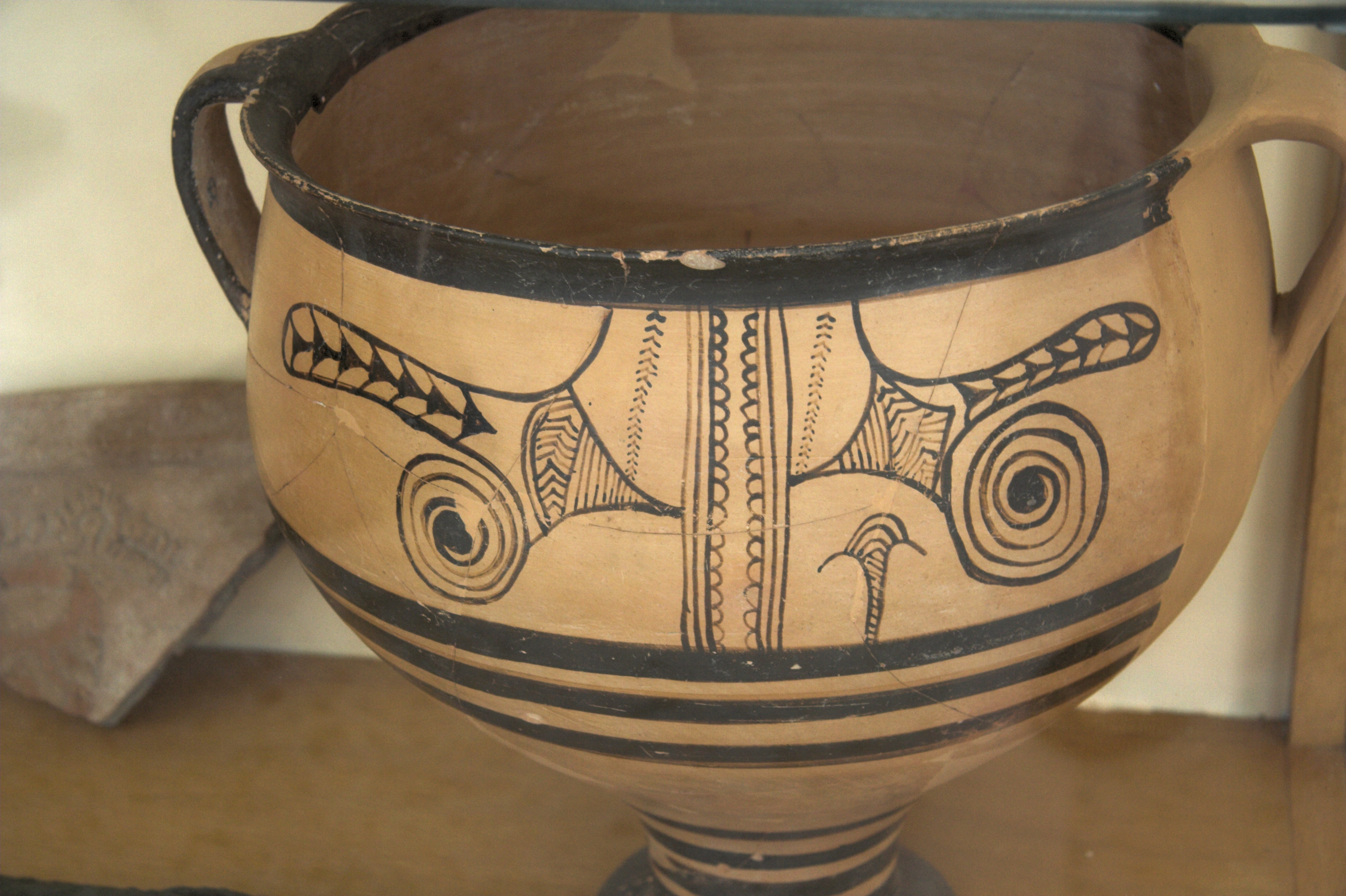 Crater, Late Mycenaean (Late Helladic), 1300-1150 BC. Koukounaries (Naoussa), Paros. Archaeological museum of Paros.